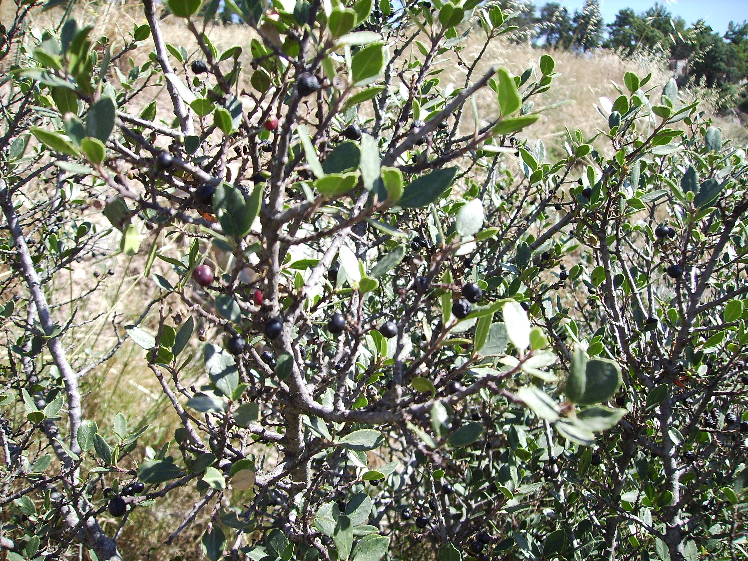 Rhamnus alaternus fruits in July at Castelltallat, Catalonia.